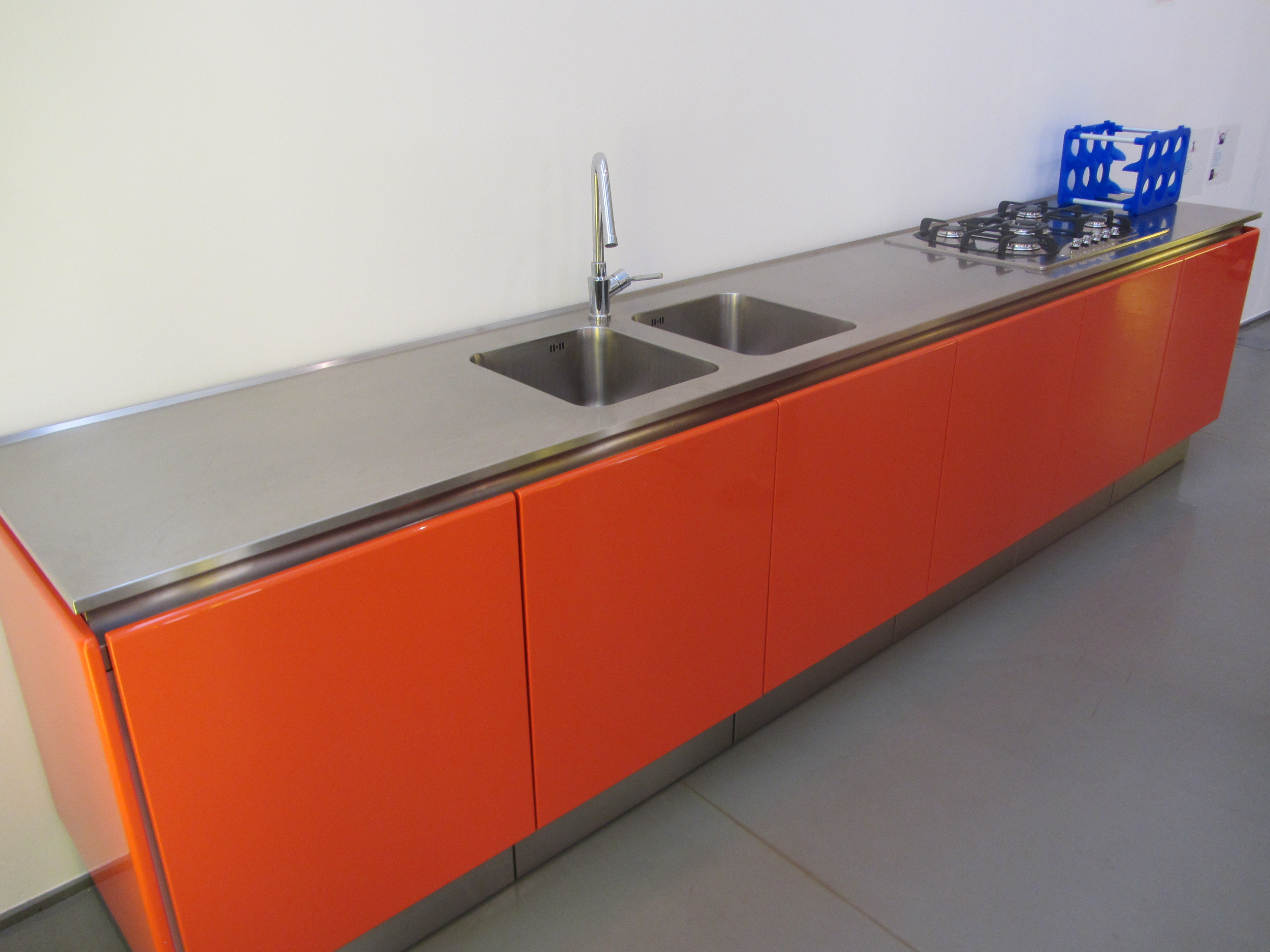 the modular kitchen "CUCINA E5" designed by Marco Zanuso for the italy industry Elam (now Tisettanta SpA) in 1966 ( foto make at Triennale Design Museum, Free photo day)